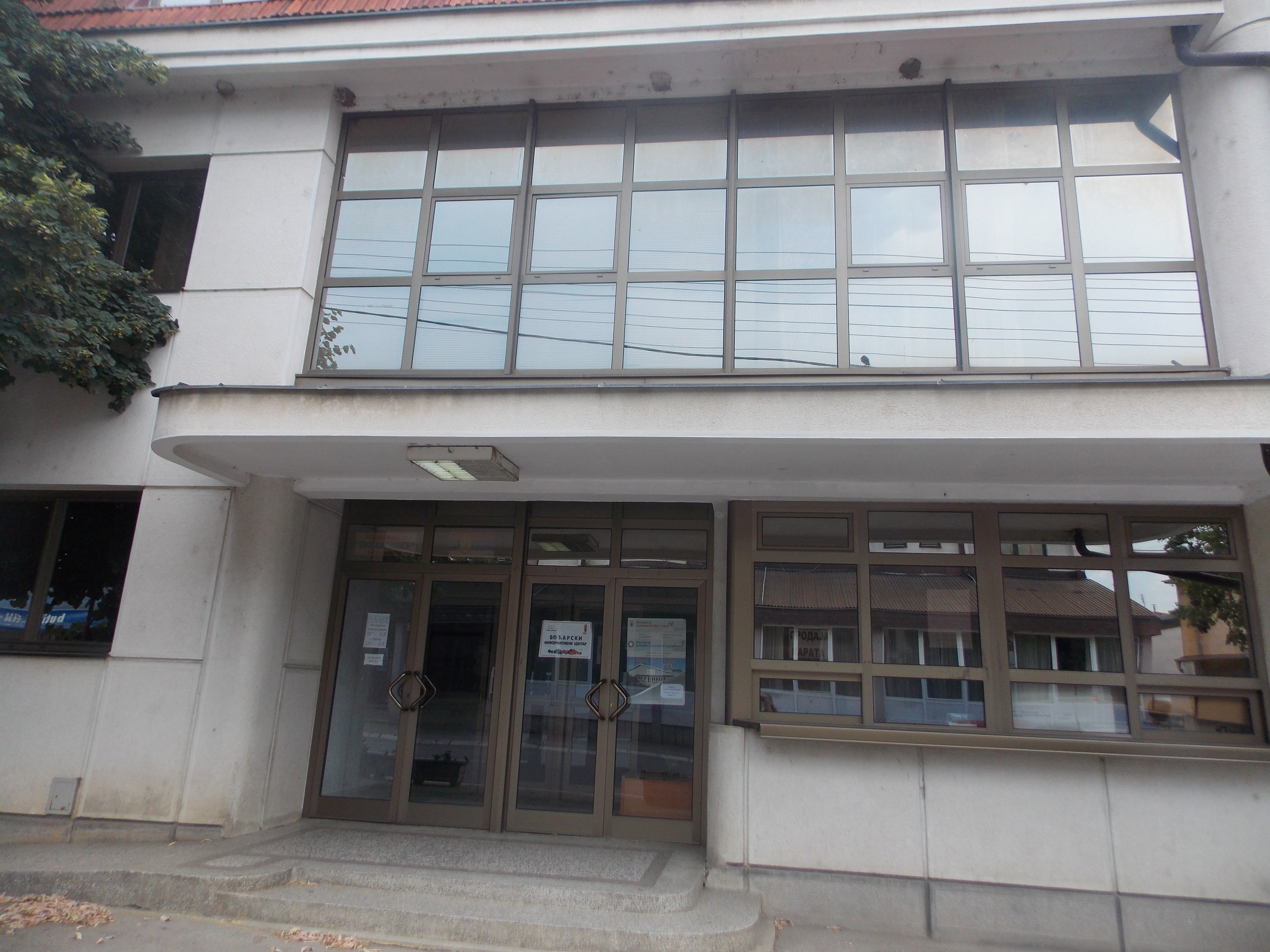 Bojnik Leskovac